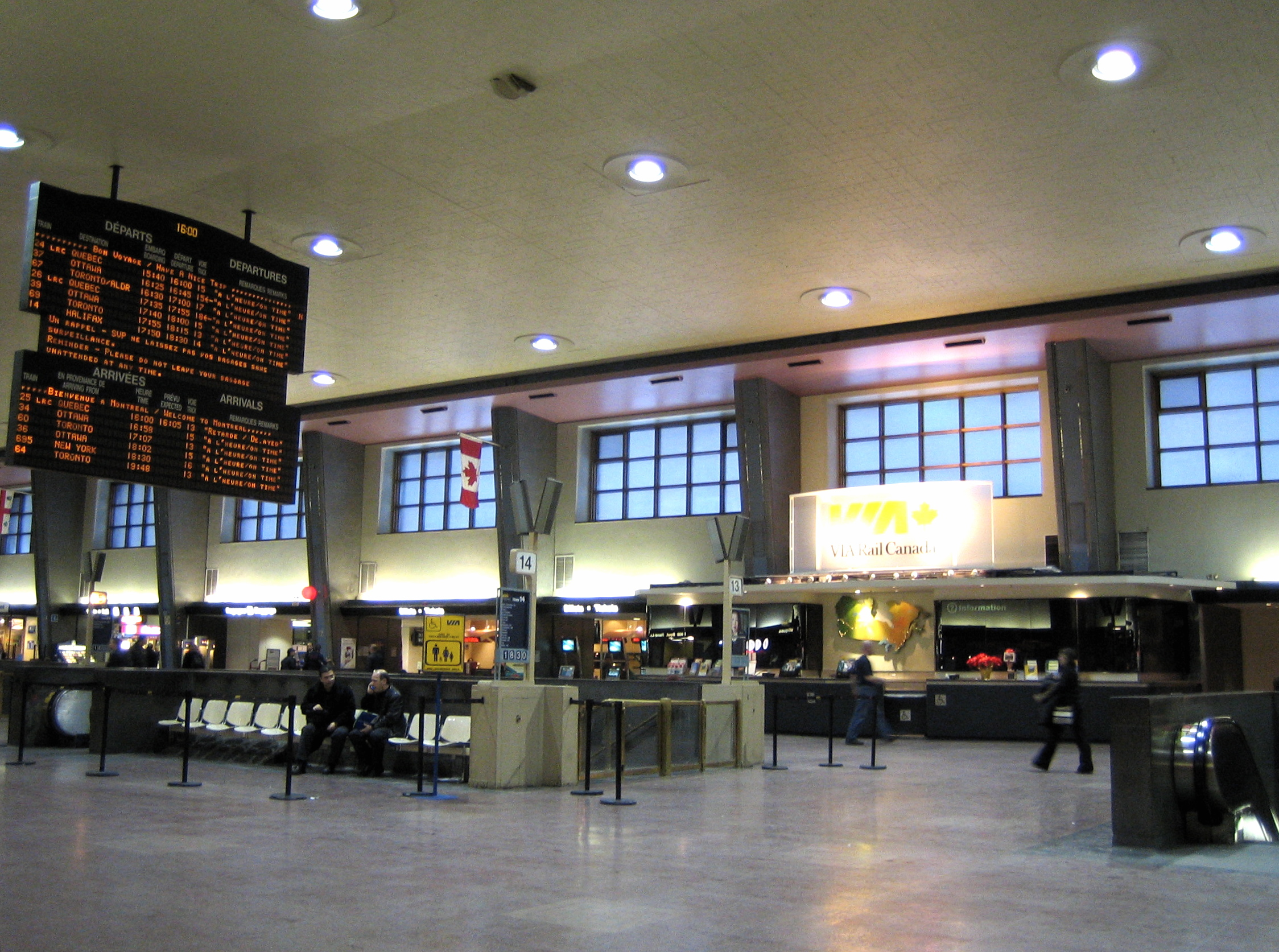 Central train station, Montreal. View from the north side, middle. Photo by uploader.